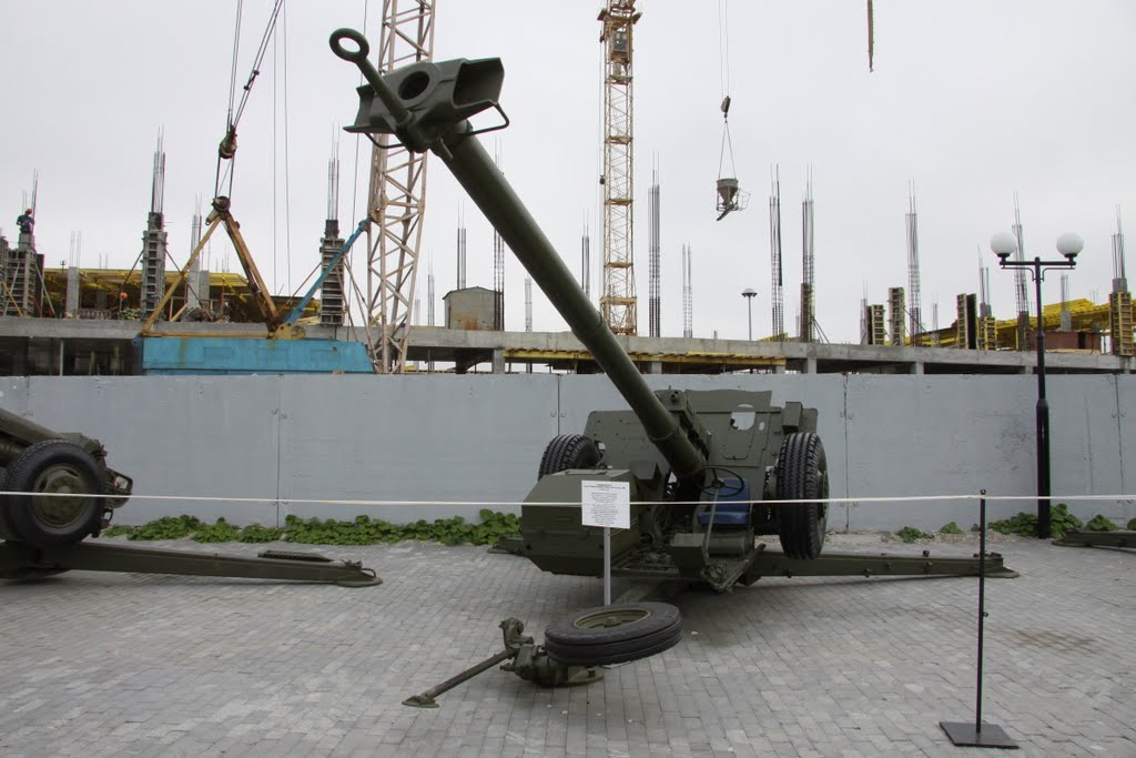 Verkhnyaya Pyshma Tank Museum 2011